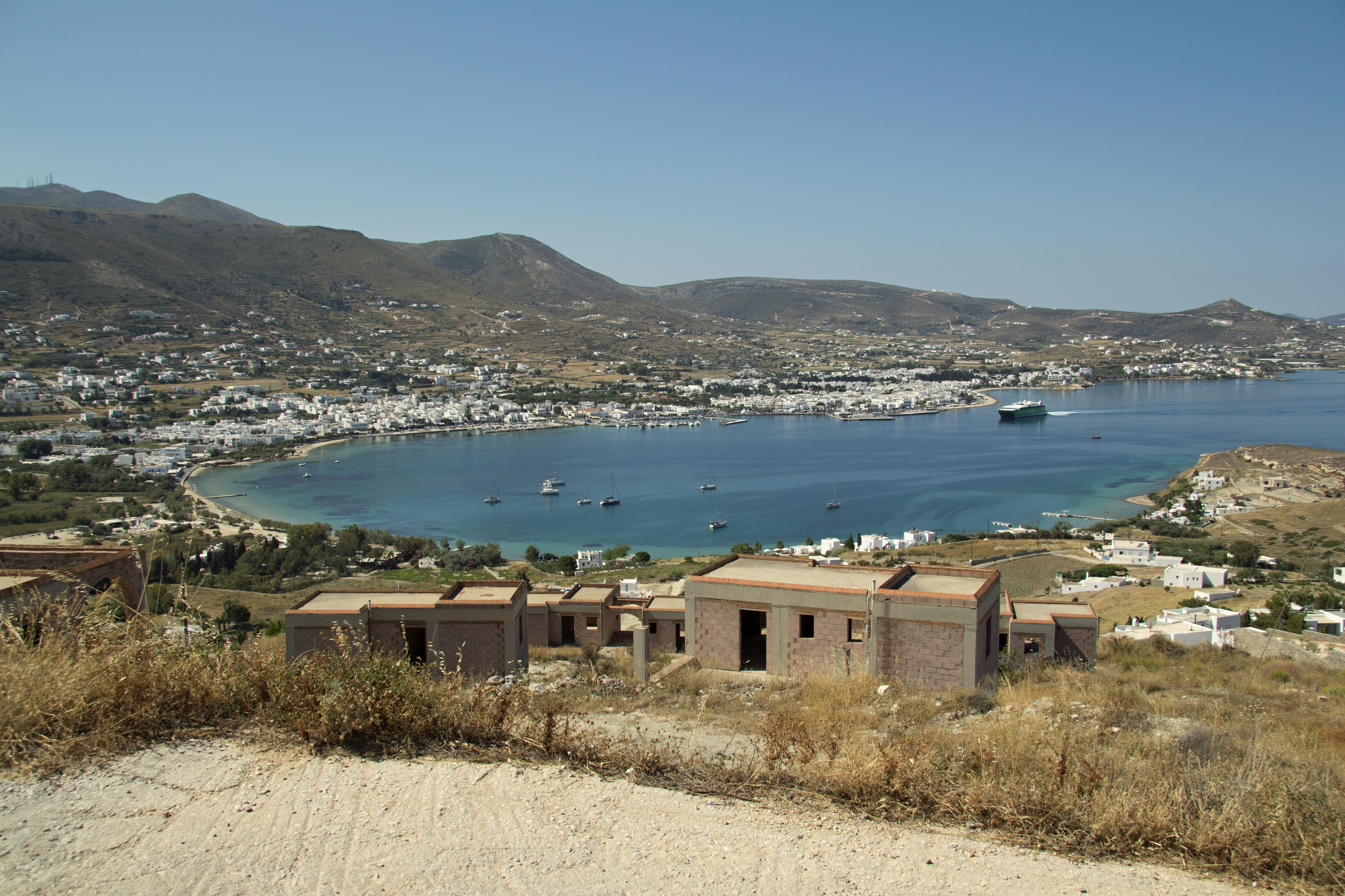 Parikia, the view from the path to Delion.